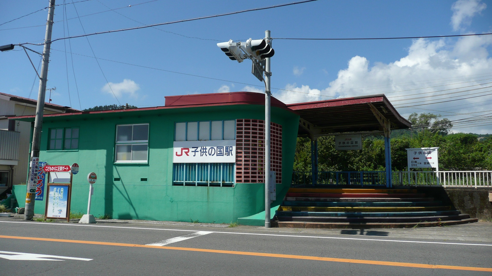 Kodomonokuni Station (Nichinan Line - Miyazaki, Japan